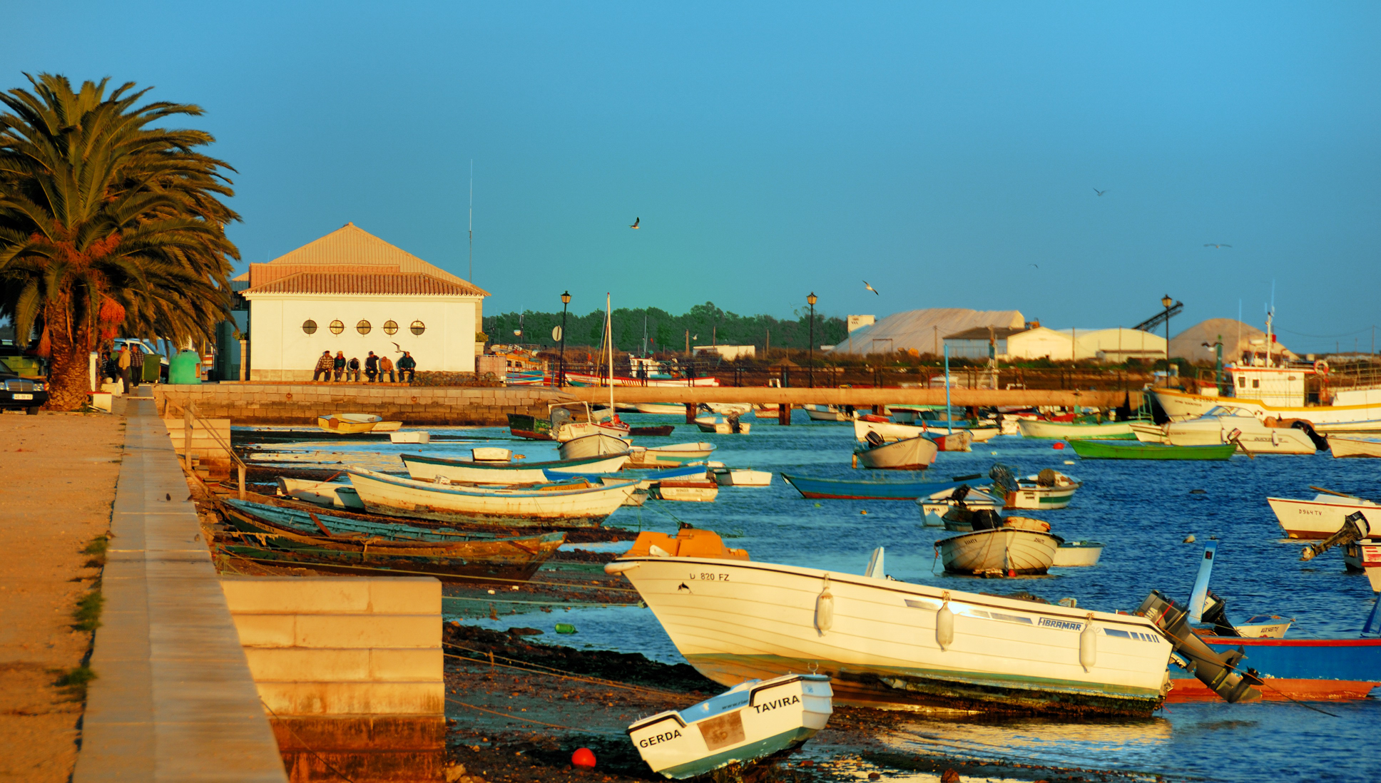 Santa Luzia seafront